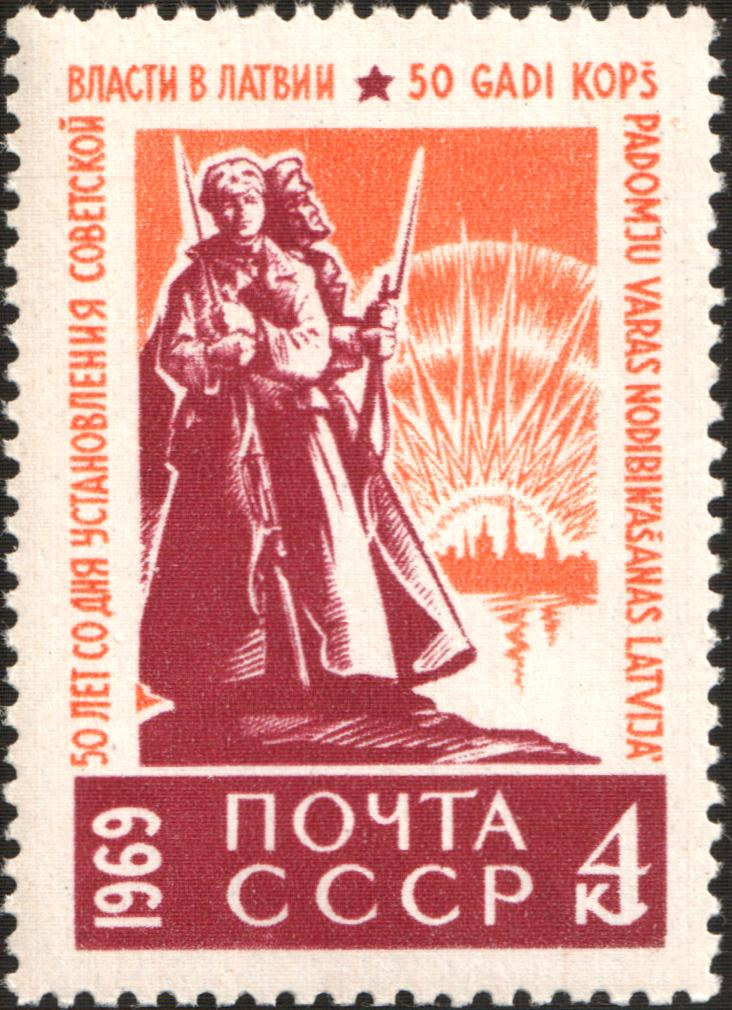 USSR stampː Russian and Latvian Shooters. Seriesː 50th Anniversary of Soviet Power in Latvia (December, 1918)